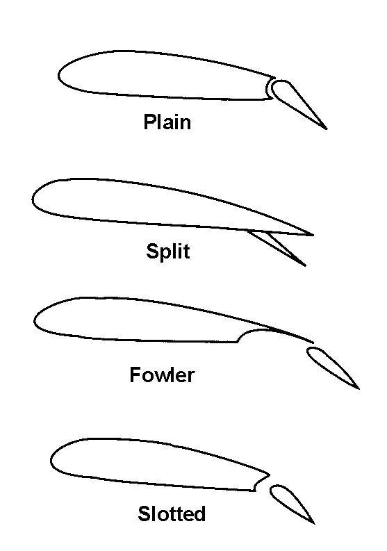 Four types of flaps This work is in the public domain in the United States because it is a work of the United States Federal Government under the terms of Title 17, Chapter 1, Section 105 of the US Code. See Copyright